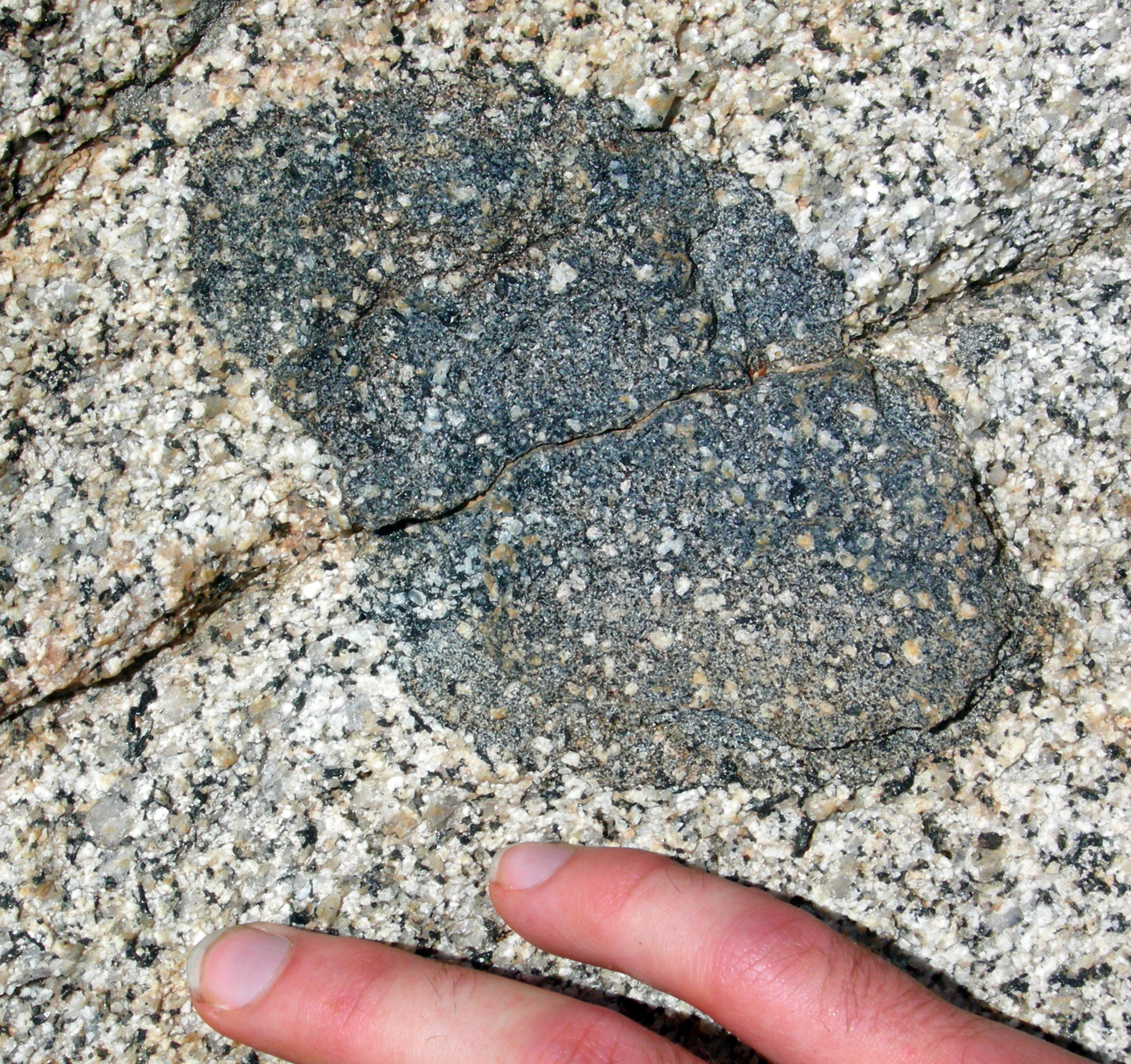 Gabbroic xenolith in a granite; eastern Sierra Nevada, Rock Creek Canyon, California.